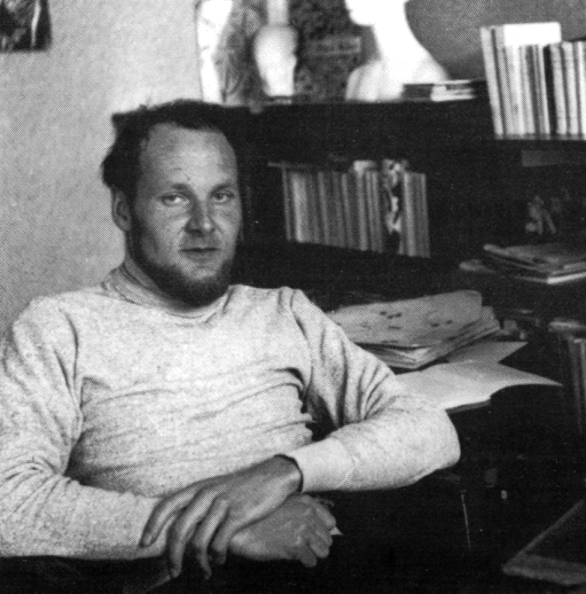 Photograph of the Finnish writer and artist Carl-Gustaf Lilius (1928–1998).